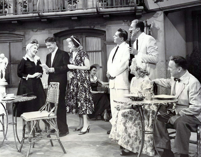 A scene from "Lucy Takes a Cruise to Havana" from the Lucy-Desi Comedy Hour in 1957. This program was an outgrowth of the original I Love Lucy television program. In this scene are Ann Sothern, Rudy Vallee, Lucille Ball, Desi Arnaz, Cesar Romero, Vivian Vance and William Frawley.